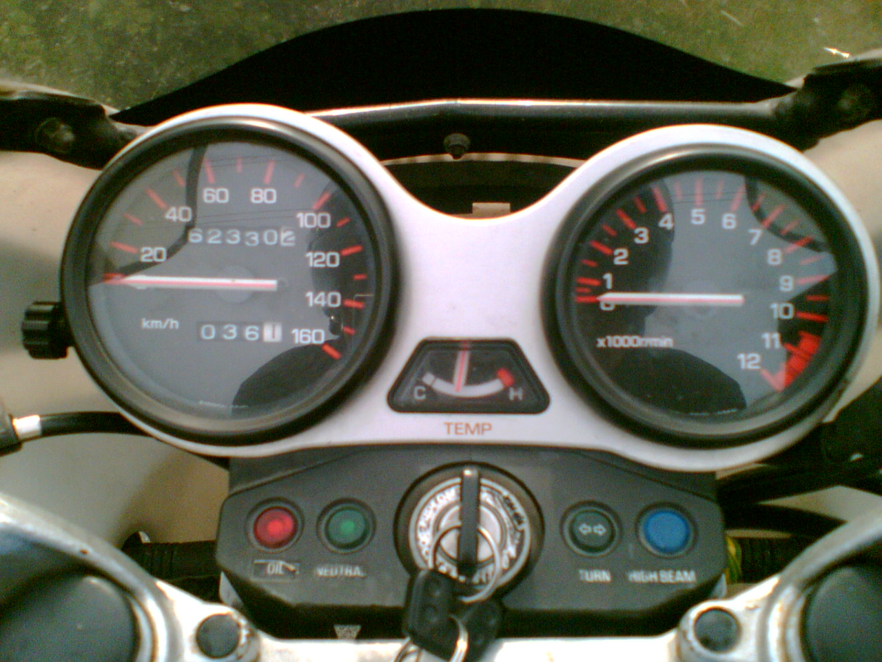 Yamaha TZR 125 1991 cockpit